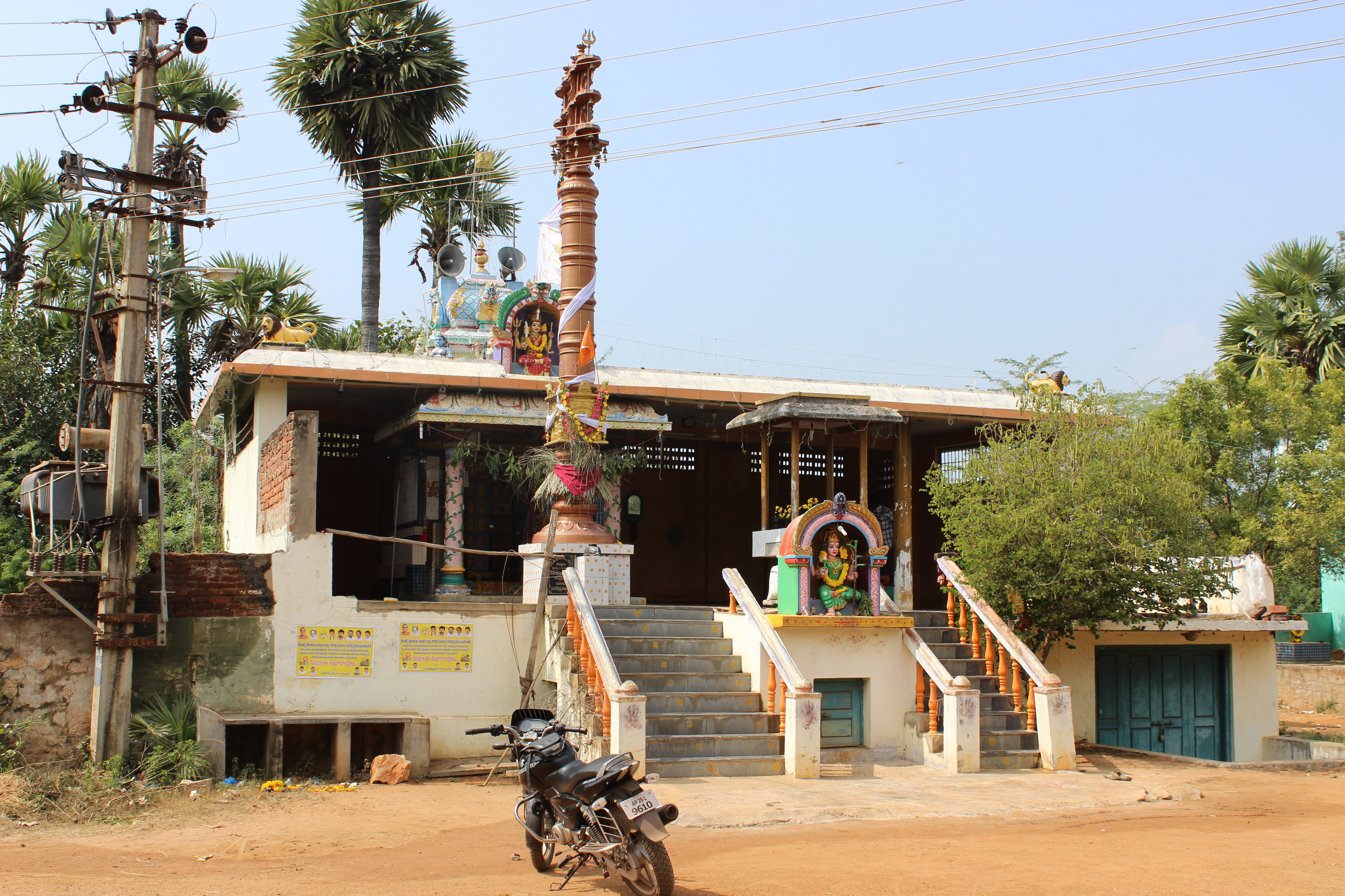 dagadarti temples